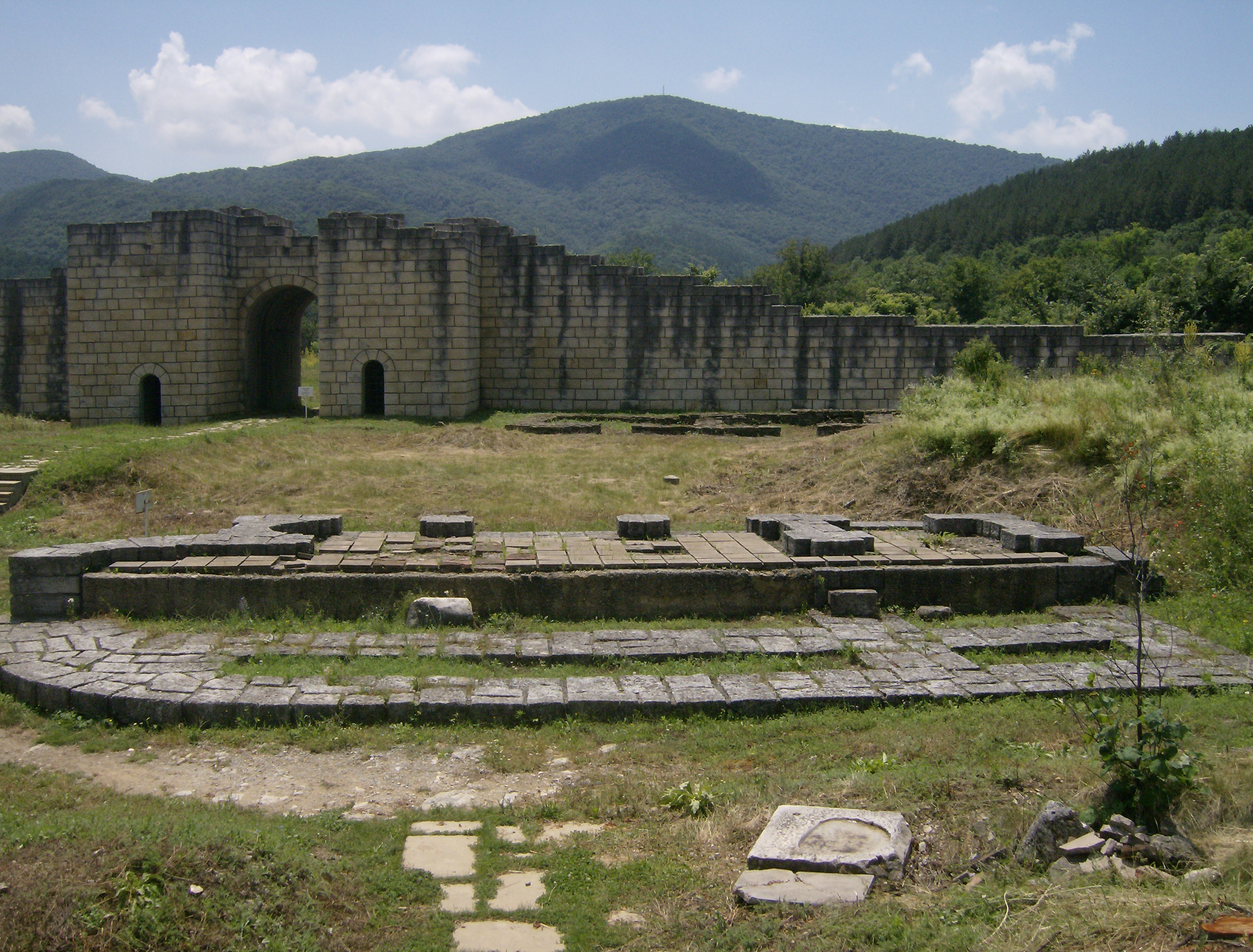 Preslav Fortress